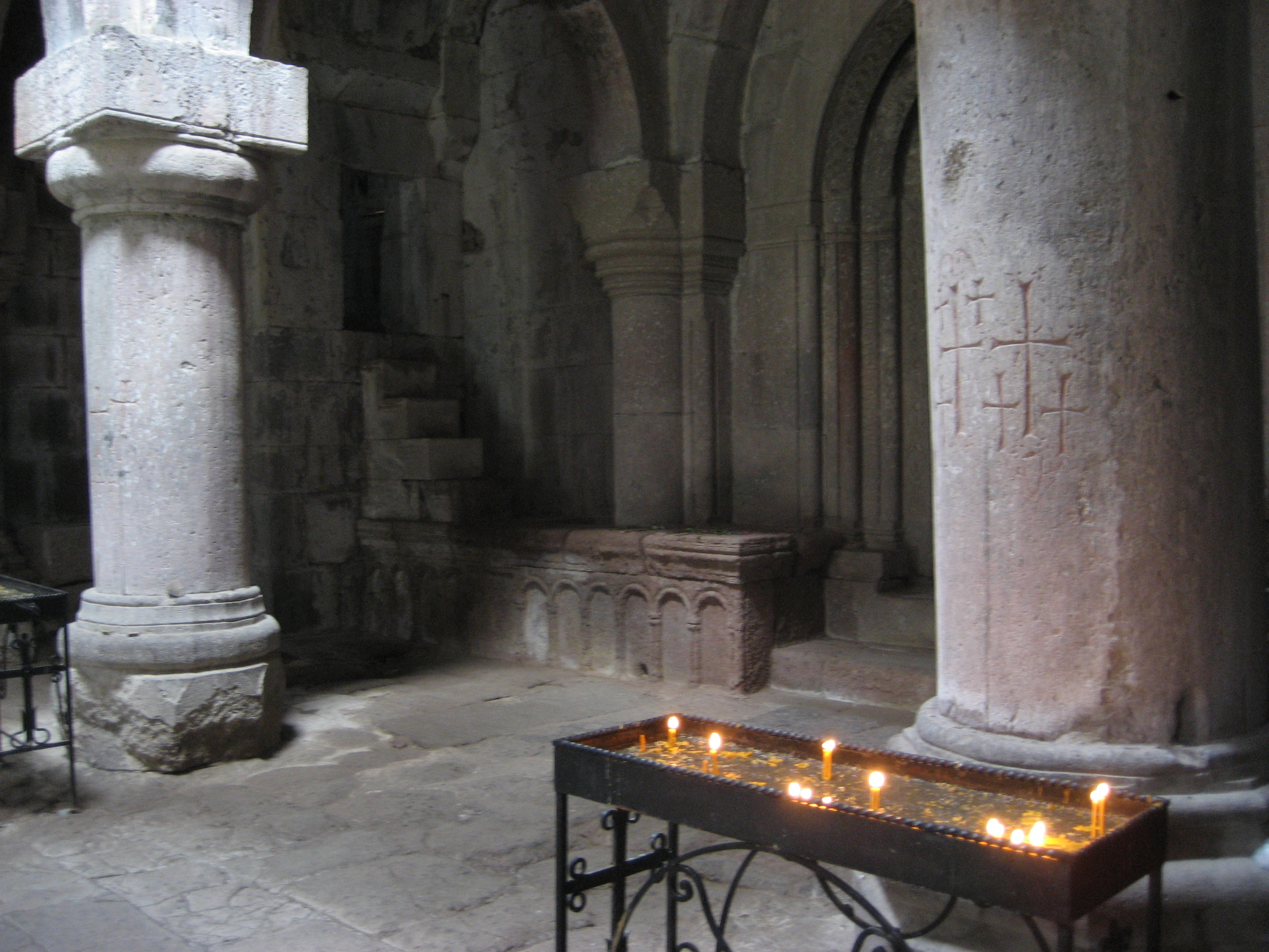 Gavit at Goshavank Monastery